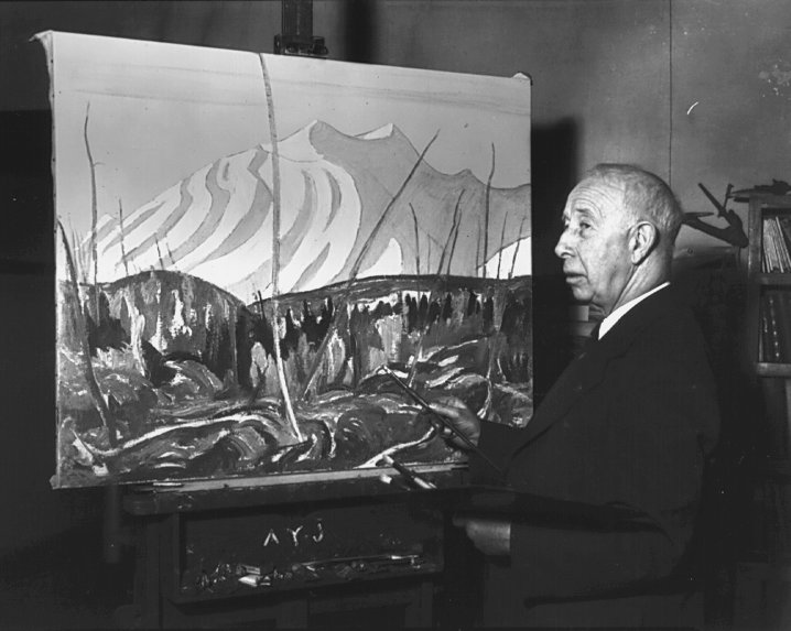 A. Y. Jackson (1882-1974), member of the "Group of Seven" (1919-1933) paints in his studio.